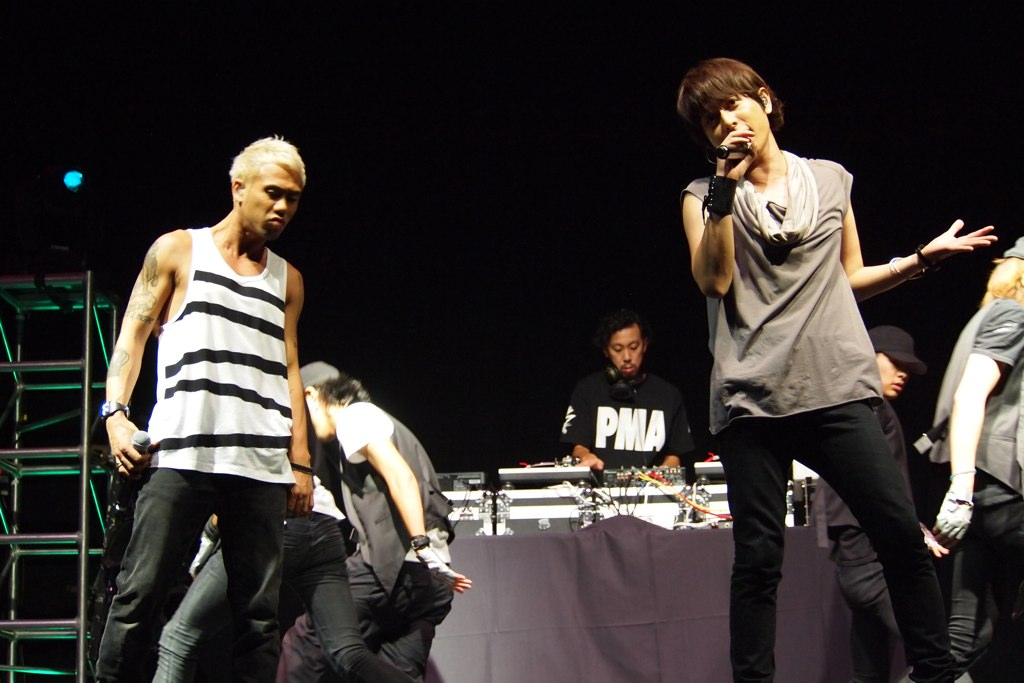 Chemistry Concert at Otakon 2011 - 58